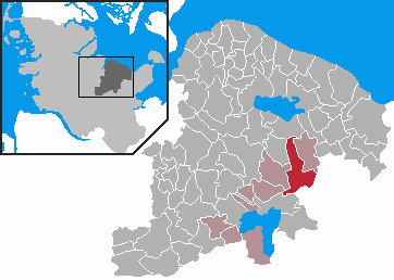 This map shows the area of the Gemeinde (municipality) Grebin in the Kreis (district) Plön, Schleswig-Holstein, Germany.